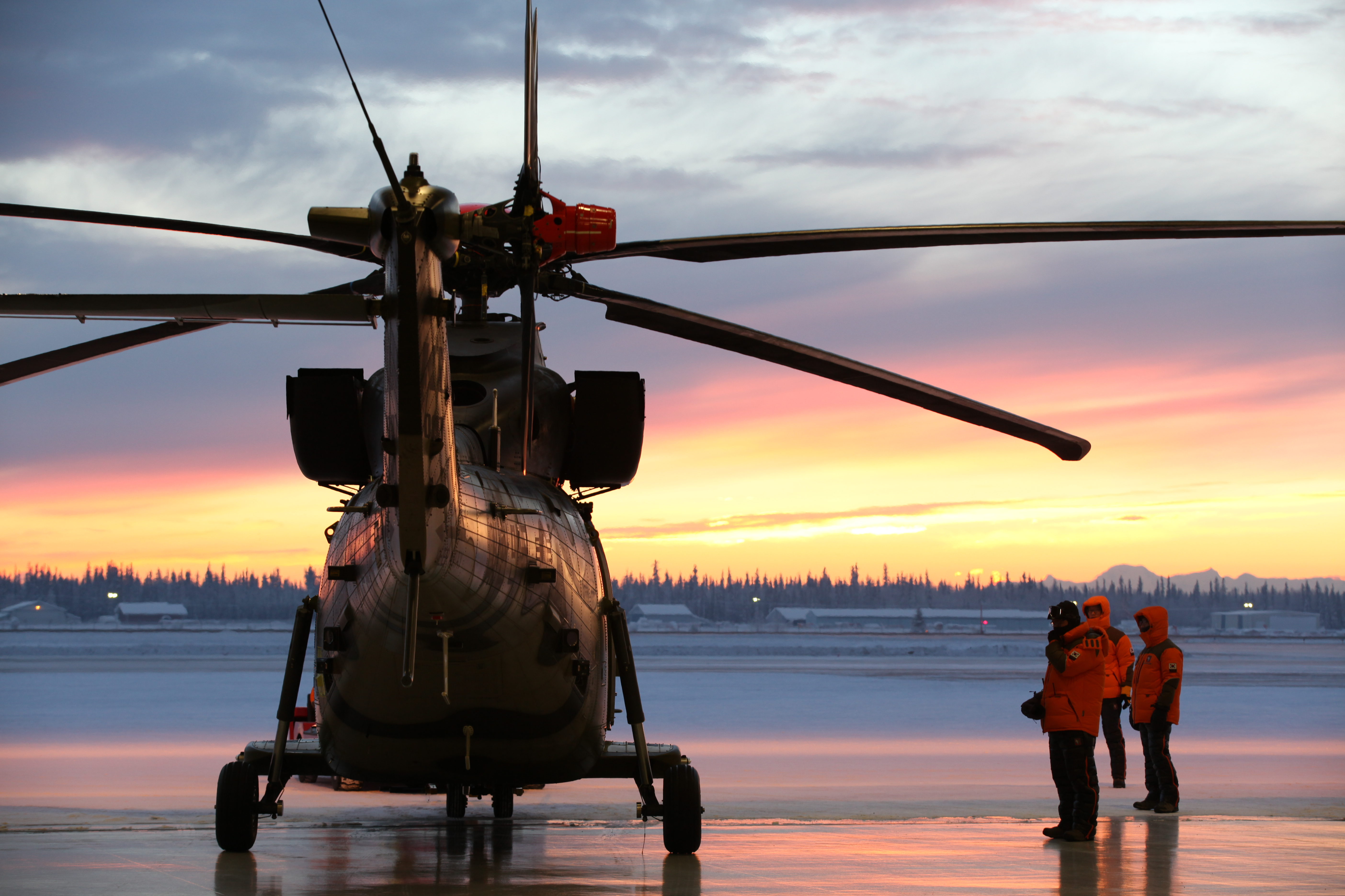 ROKA Korean Utility Helicopter (Surion) / Ready for low temperature test in Alaska / Photo by KAI (2013) 한국항공우주산업